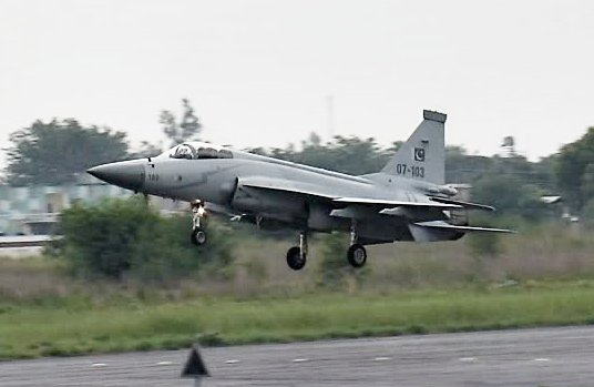 A JF-17 Thunder fighter aircraft landing at a Pakistan Air Force airbase during flying operations. Two weapons pylons can be seen under the wing.